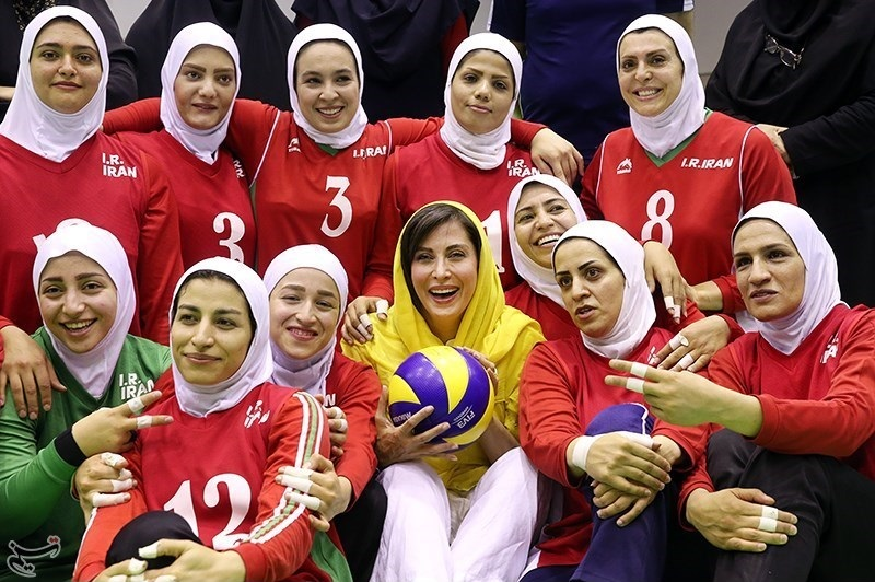 Mahtab Keramati visits Iran women's national sitting volleyball team (139506071544109418501584)